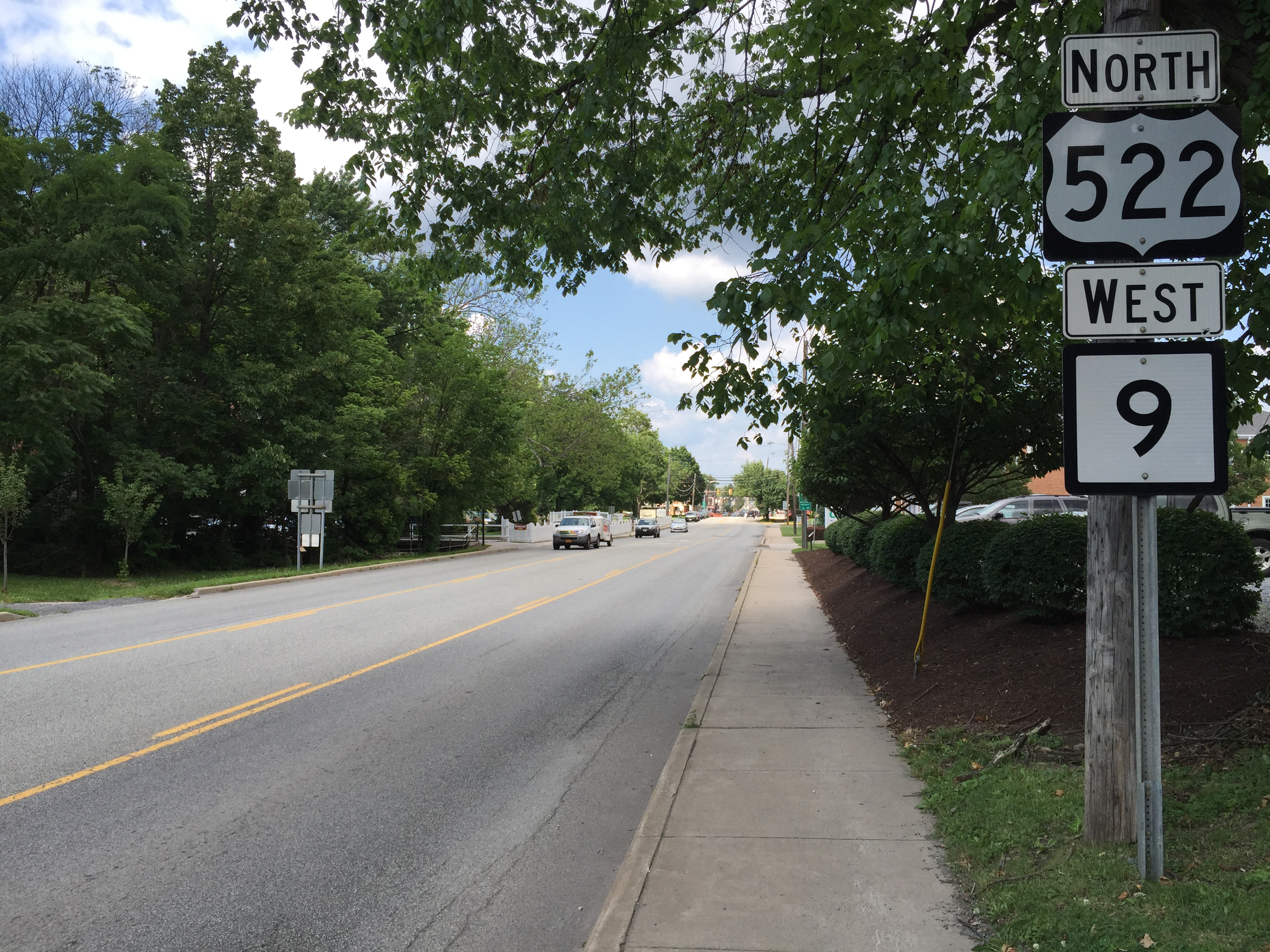 View north along U.S. Route 522 and west along West Virginia State Route 9 (Washington Street) between Market Street and Warren Street in Berkeley Springs (Bath), Morgan County, West Virginia